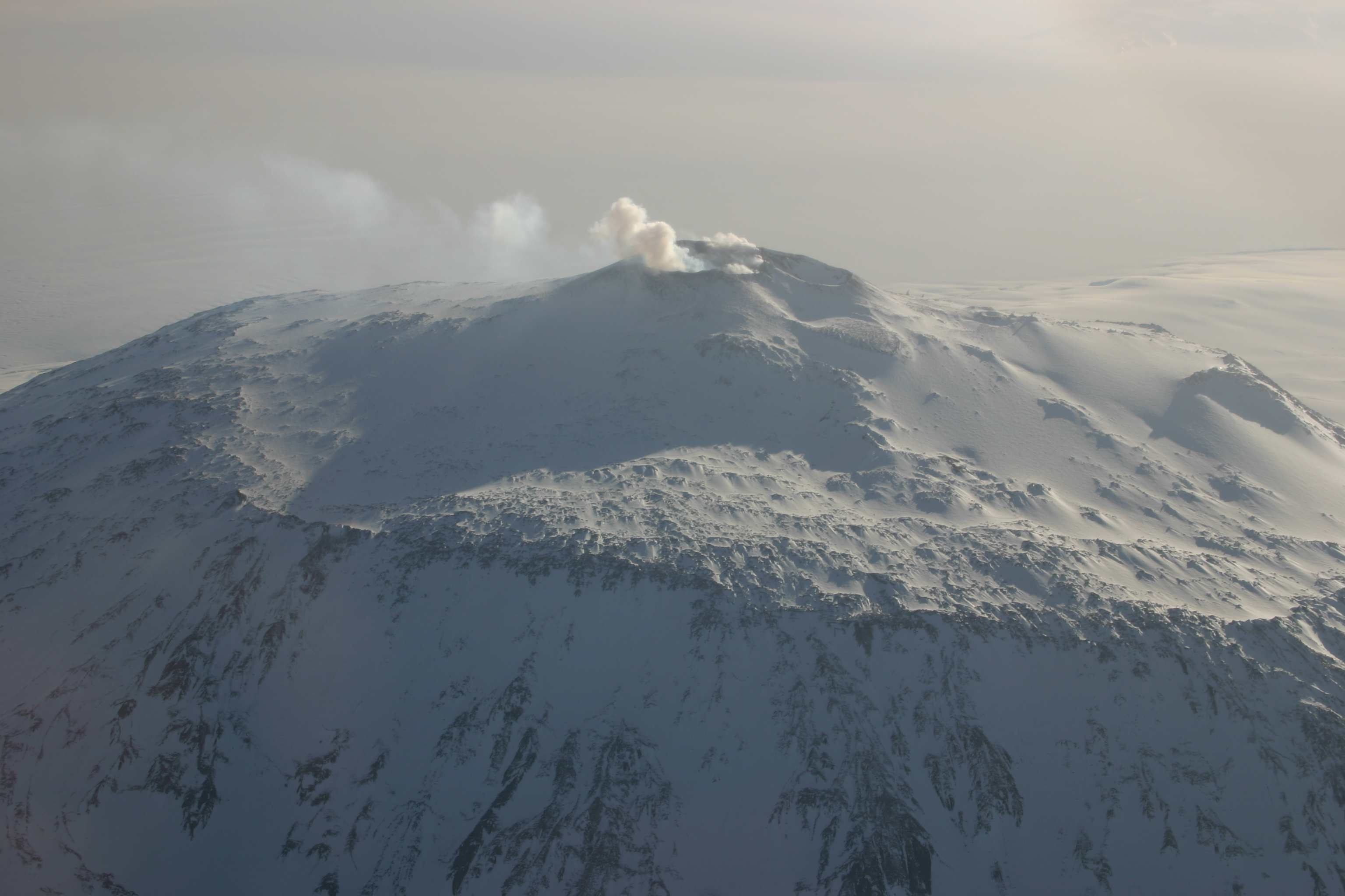 Aerial view of Mount Erebus crater, Ross Island, Antarctica